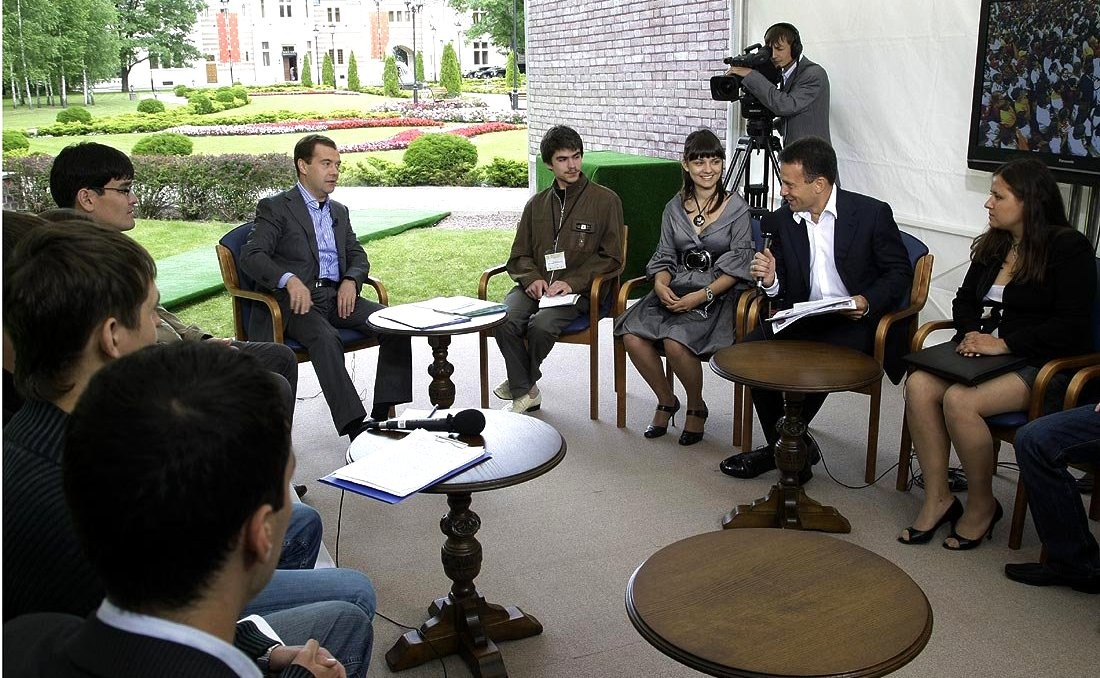 BARVIKHA, MOSCOW REGION. Dmitry Medvedev with Participants of 2009 Seliger Youth Education Forum.